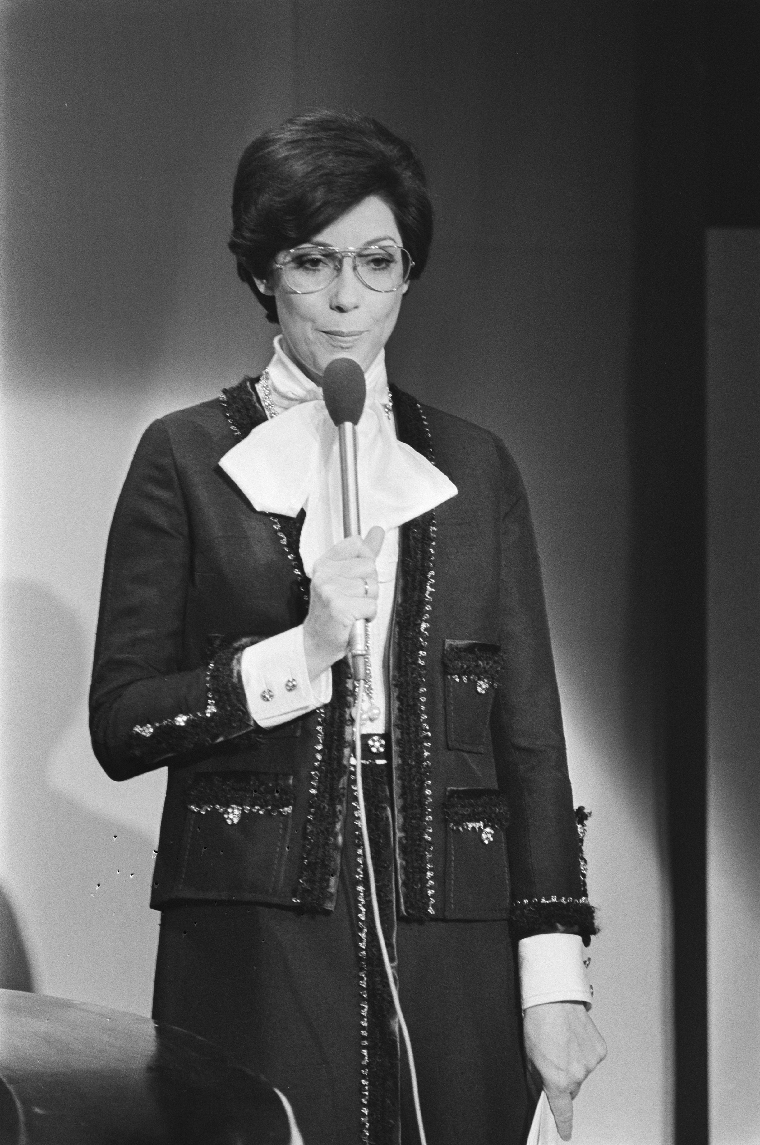 Host Corry Brokken at the 1976 Eurovision Song Contest